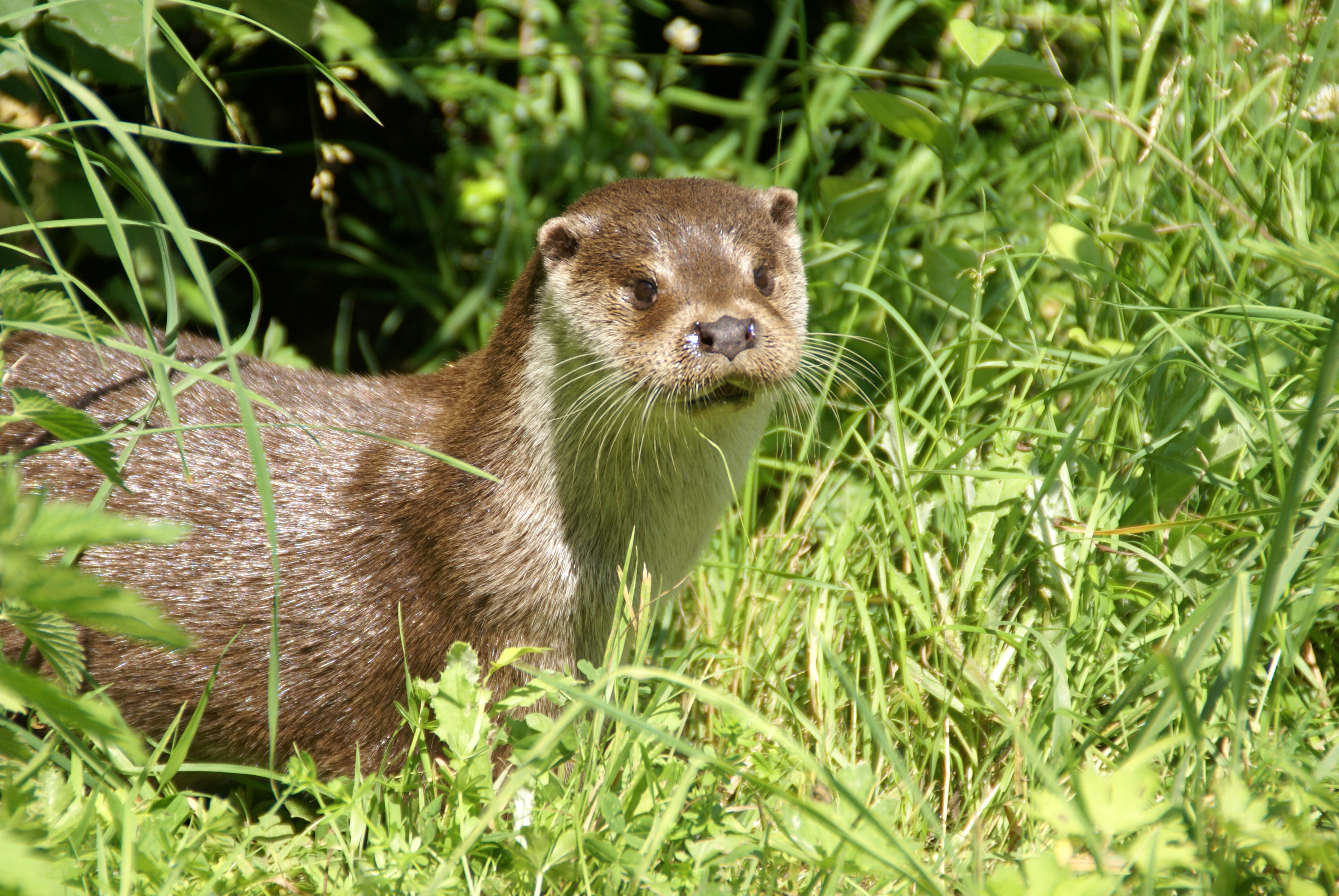 Eurasian otter